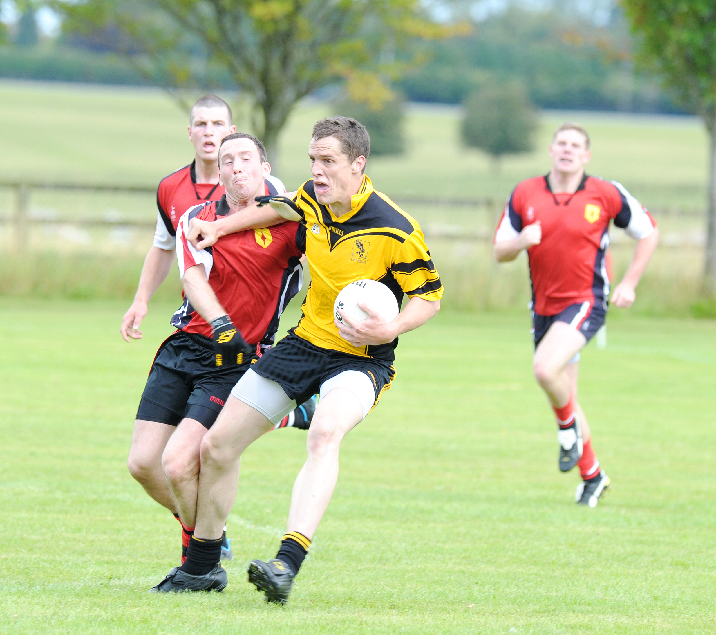 Action from the Inter Bde Football final 2011